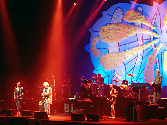 Split Enz, 13th June 2006, Rod Laver Arena See the full gallery: [1]